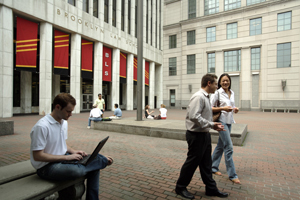 Students outside Brooklyn Law School's main building